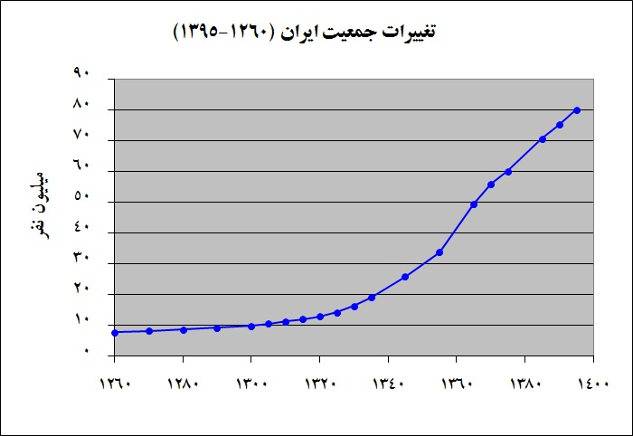 Population Change of Iran between years 1880-2016